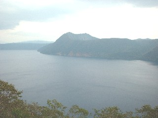 Lake mashu in Japan 20.9.2002 author: Mintleaf